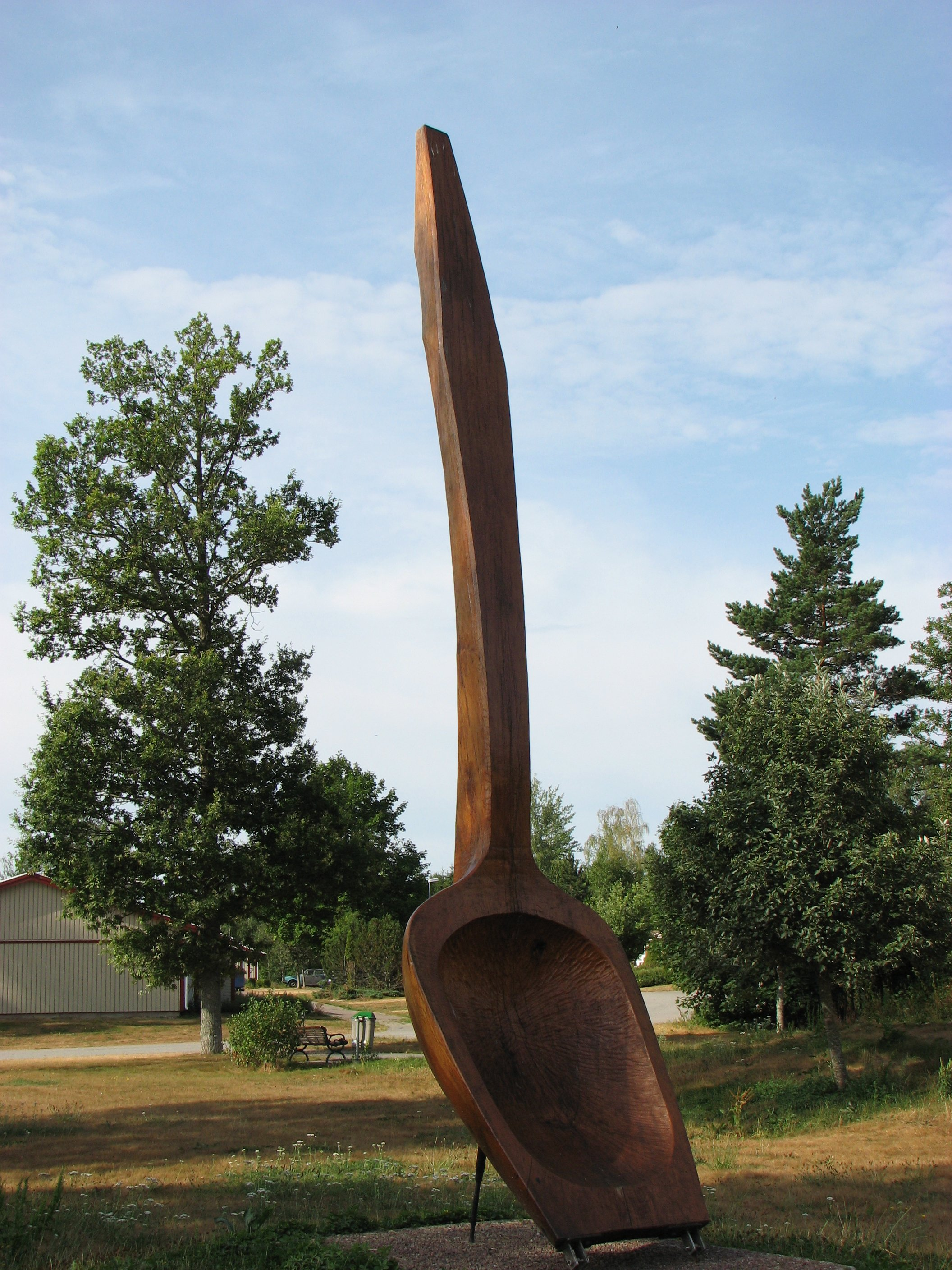 Photo of a "record-size" wooden stirring spoon, located in the village Gullabo in south-eastern Sweden. Paraphrased from a sign next to the spoon: "Made for the Gullabo Handicrafts Fair 2000 by members of the Torsås Handicraft Society. The spoon is 4.64 metres tall, 1.07 metre wide and weighs 350 kg. Representatives from The Guinness Book of Records has verified that it was the world's largest wooden spoon."